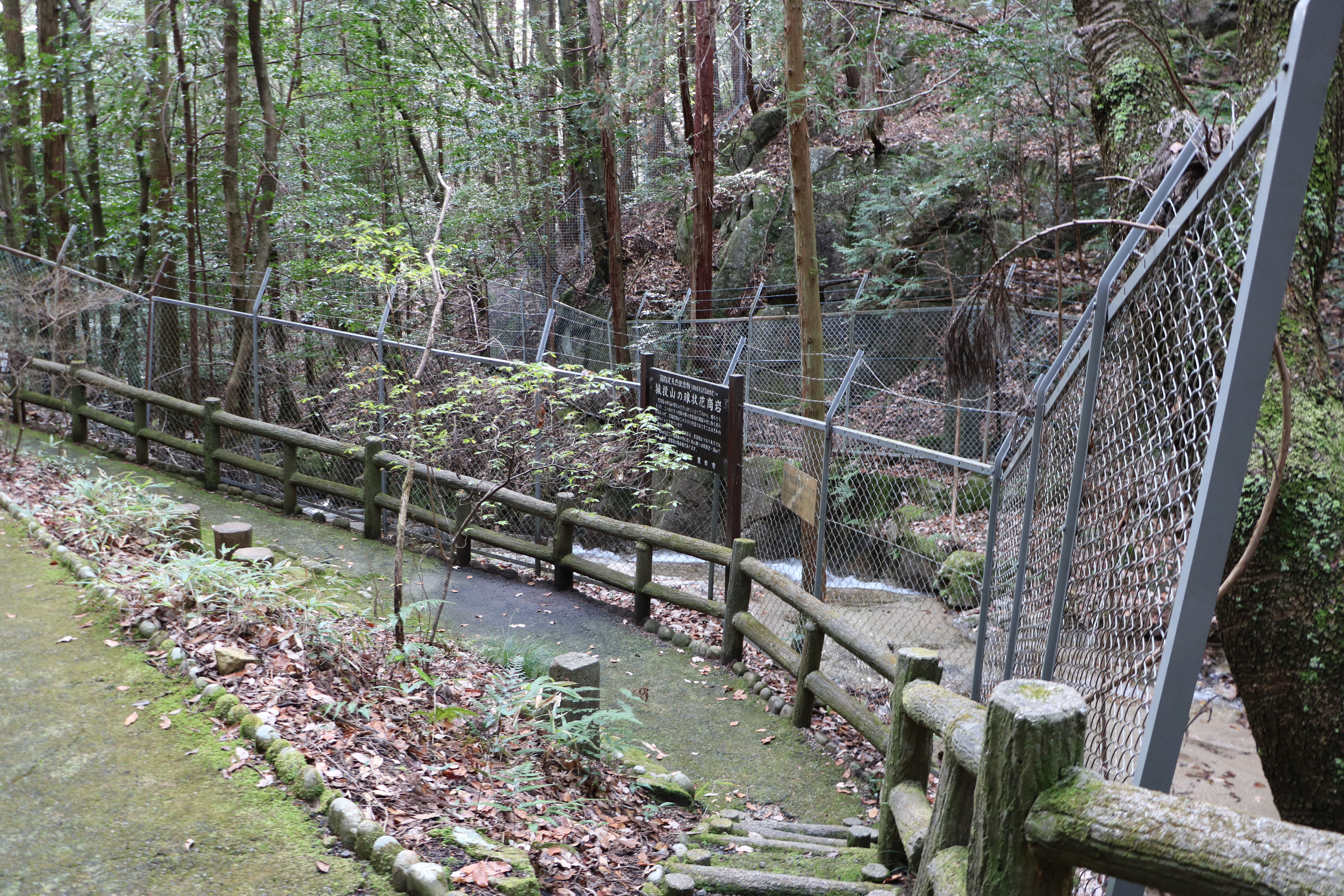 Granito Orbicular rock on Mt. Sanage protected by wire mesh